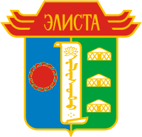 Elista (Kalmykia), coat of arms (2004)